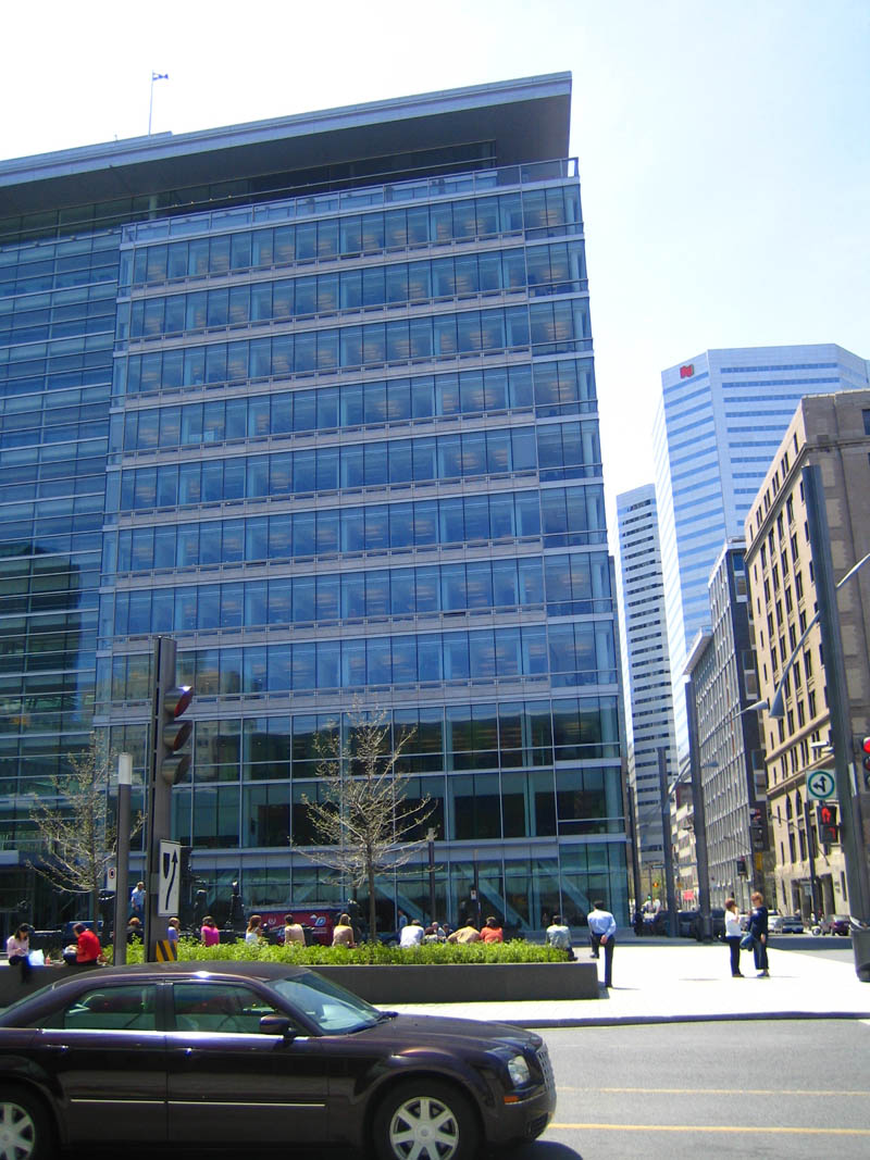 The CDP Capital Centre, on Place Jean-Paul-Riopelle in the Quartier international de Montréal.